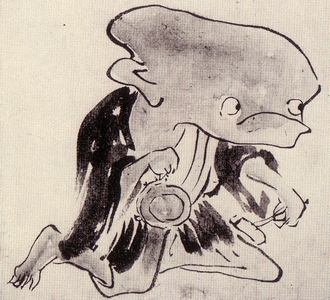 Bake-ichō-no-rei (化け銀杏の霊, 銀杏の木の化物, a ghost ginkgo) from the Buson Youkai Emaki (蕪村妖怪絵巻)